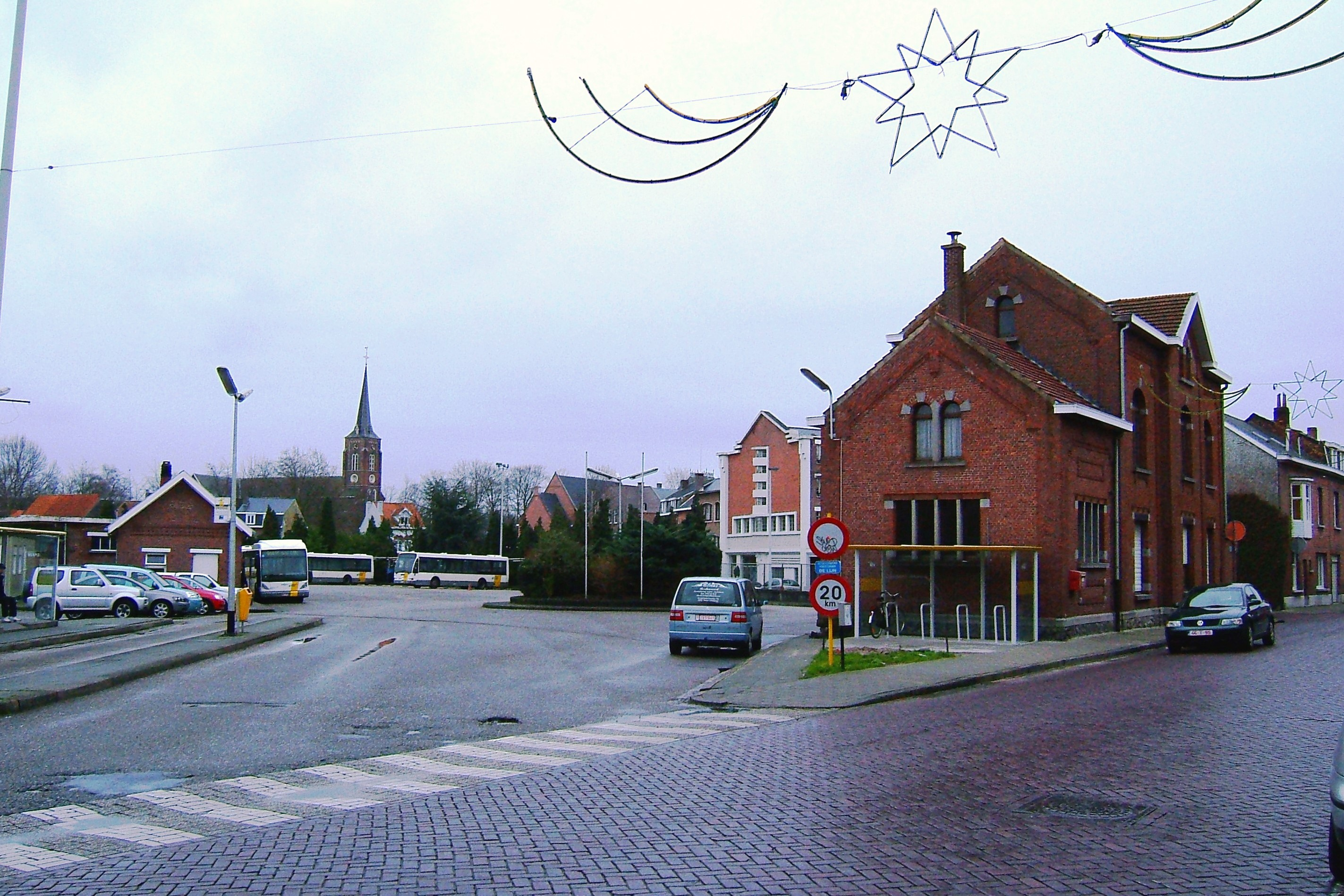 Old tram station in Rumst.